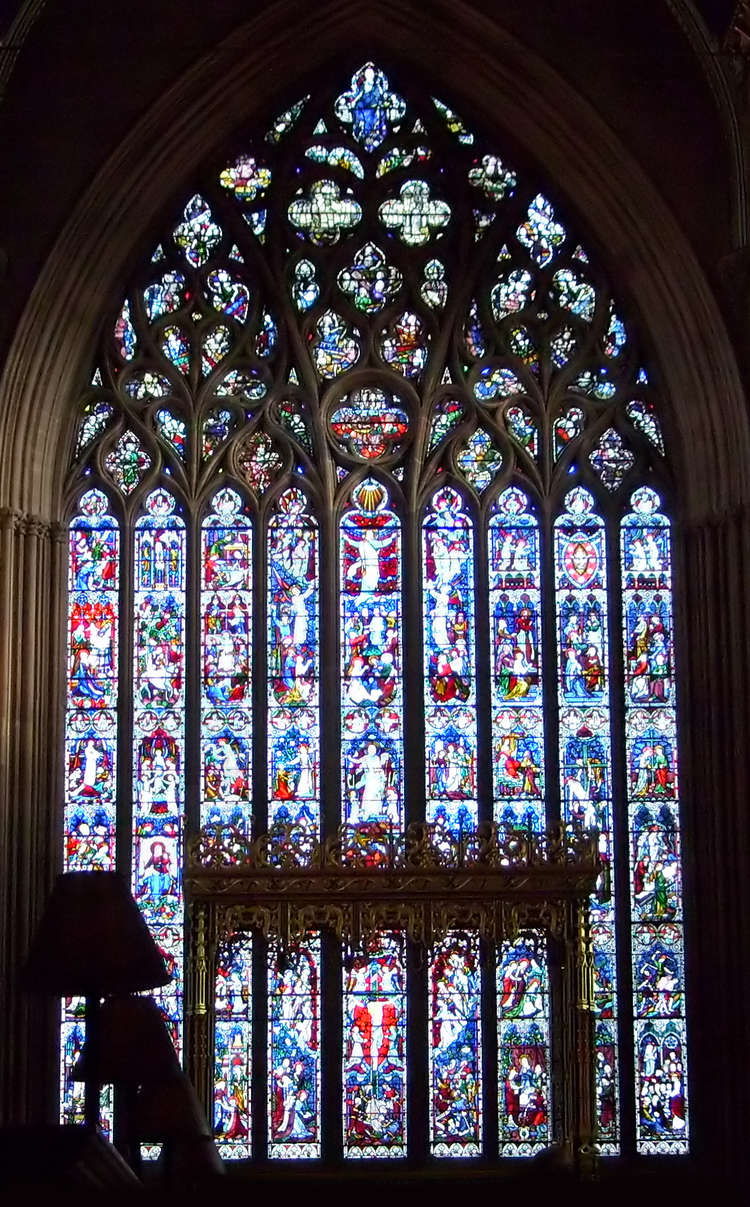 East window in Carlisle Cathedral, one of the finest examples of Flowing Decorated Gothic tracery in England. The glass of the tracery is Medieval and the lights is Victorian